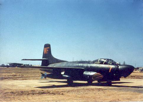 A Douglas F3D-2 Skyknight night fighter of Marine night fighter squadron VMF(N)-513 Flying Nightmares parked at airfield Kunsan in the Summer of 1953. Note the partially opened radar housing.